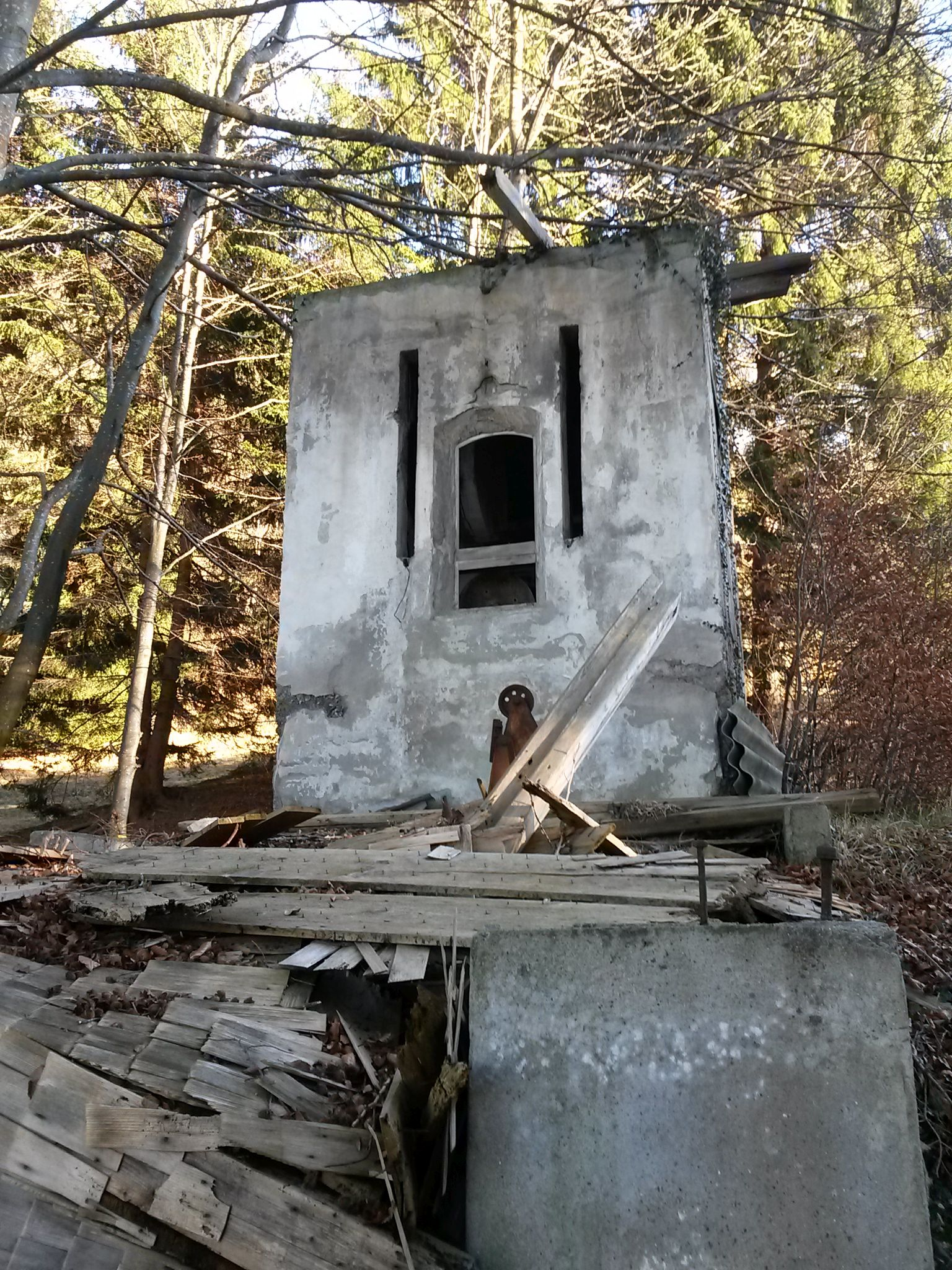 Decayed mountain station of the Experimental ropeway Batschuns (municipality of Zwischenwasser) by Karl PETER (ca. 683 - 825 m.ü.A.), existed from 1947 to 1962/63.